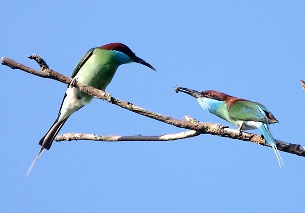 Blue-throated Bee-eater - pair courting before intrusion Merops viridis viridis Changi Village, Singapore 22nd. April 2007 Taken with EF 500 IS L, 2X adaptor